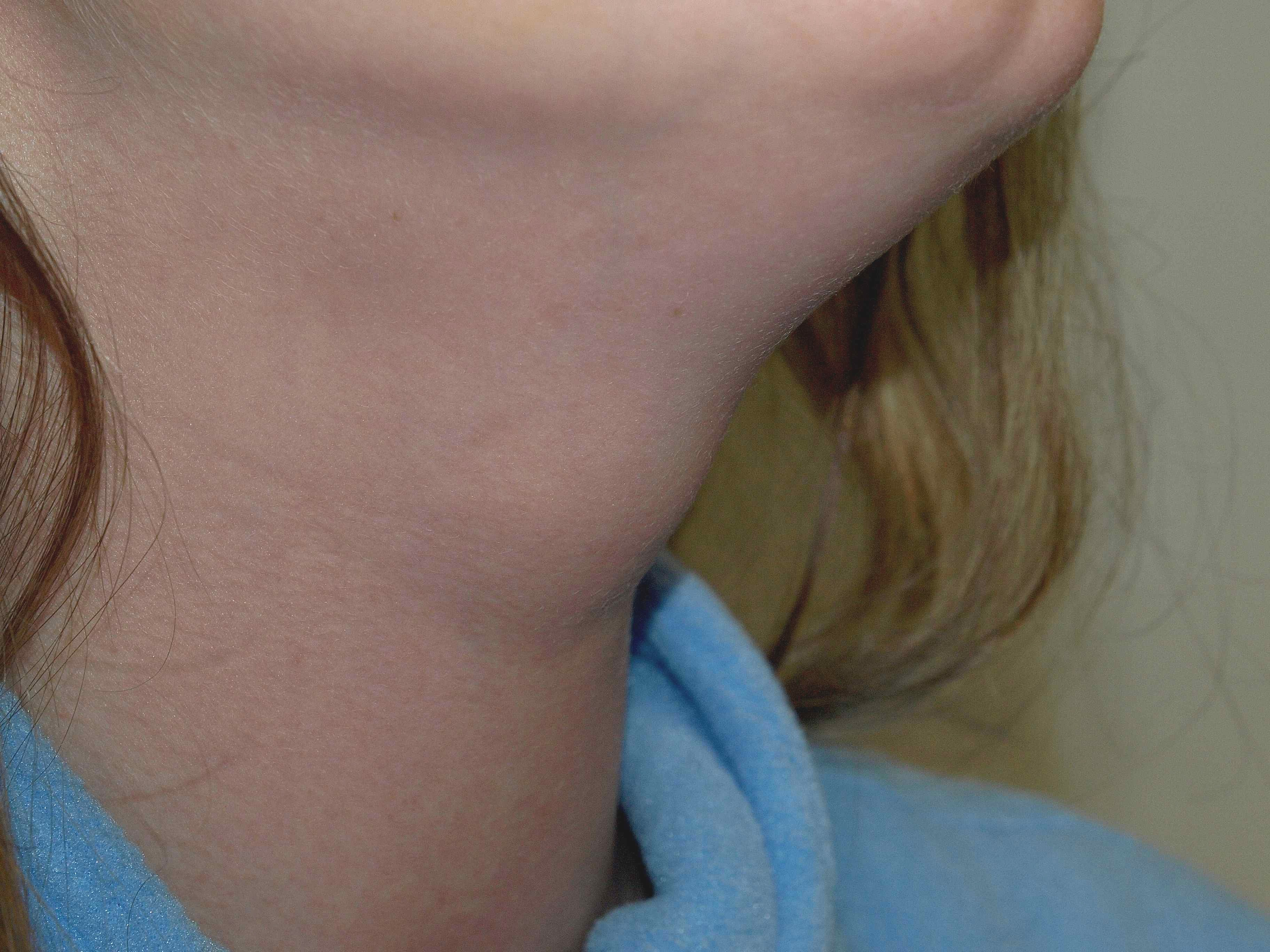 Thyreoglossal duct cyst